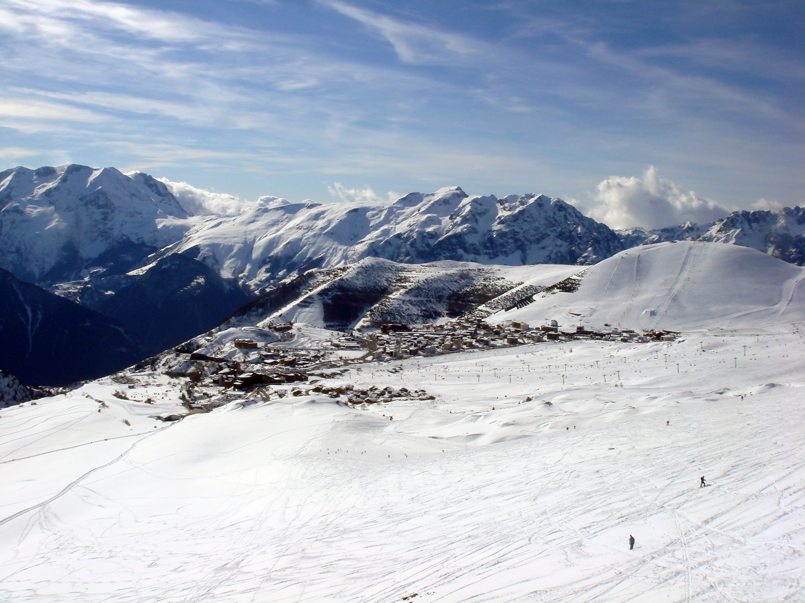 The ski resort of Alpe d'Huez in the French Alps as seen from Mine de l'Herpie, winter 2009